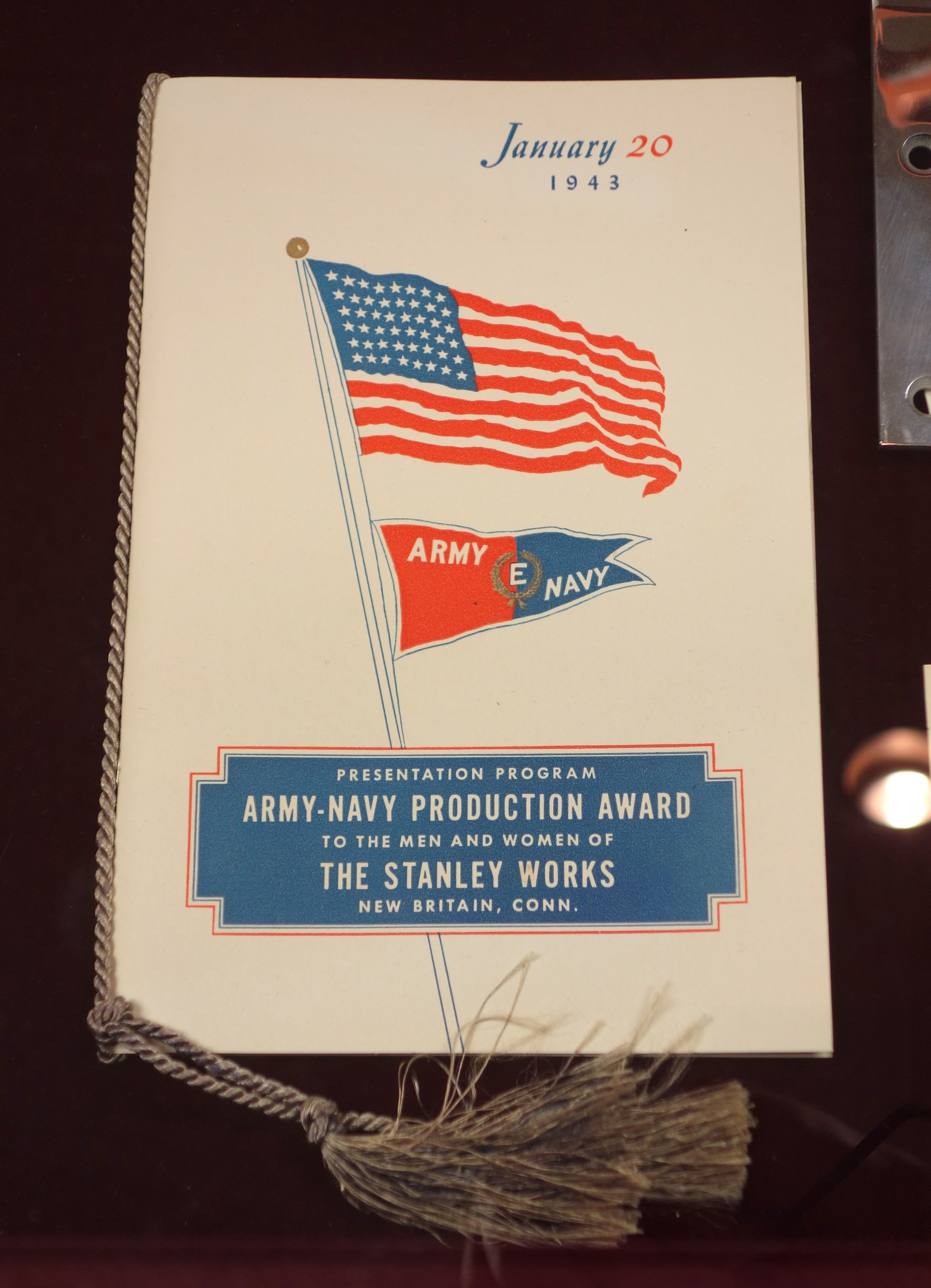 Exhibit in the New Britain Industrial Museum, New Britain, Connecticut, USA.